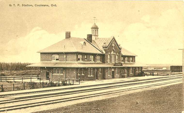 Monotone postcard showing the Grand Trunk Pacific Railway station at Cochrane, Ontario.